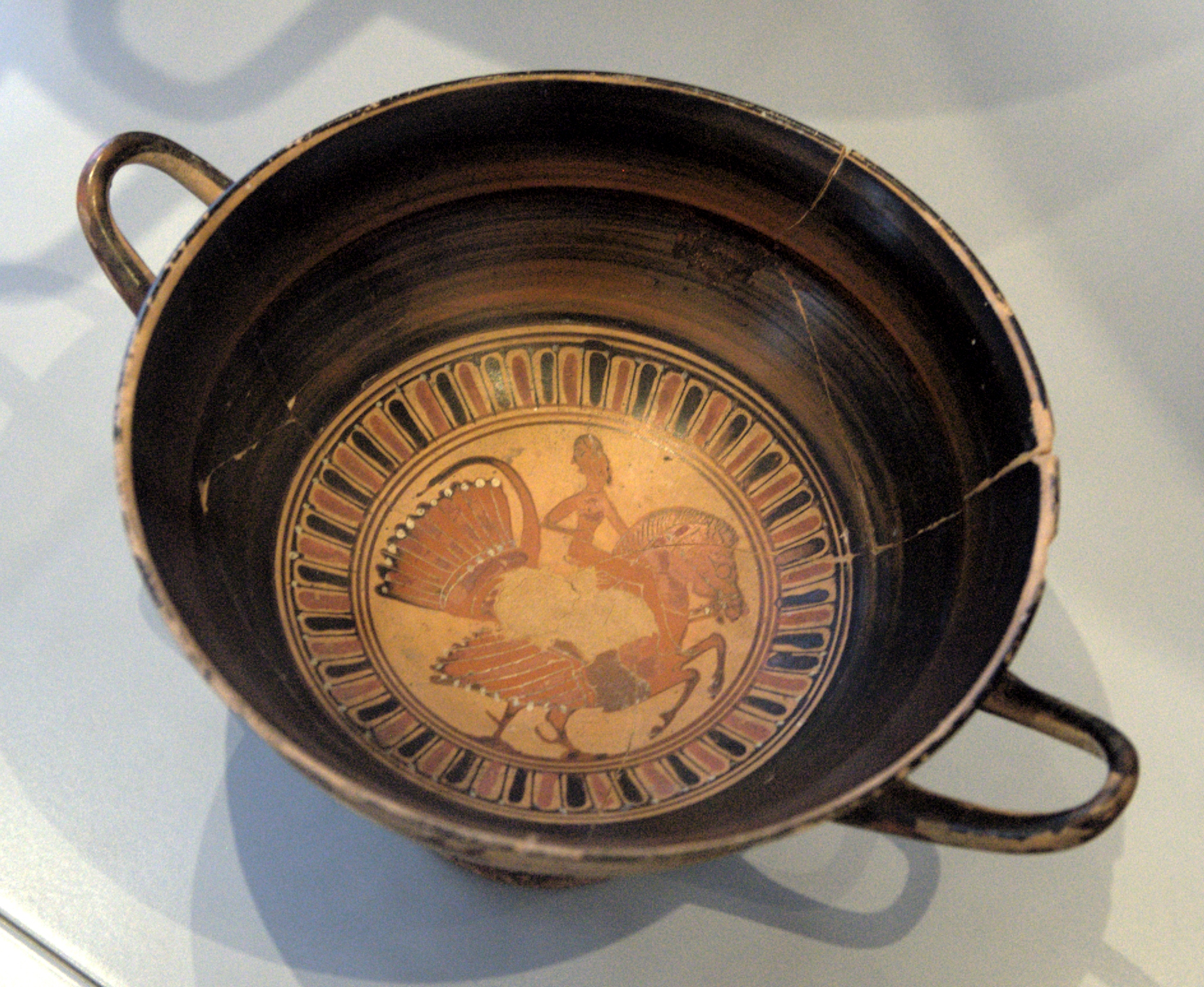 Man riding hippalektryon. Interior of an Attic black-figure lip cup, 540–530 BC.